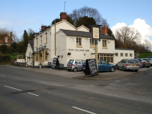 The Village Inn at Holt End, Beoley, near Redditch